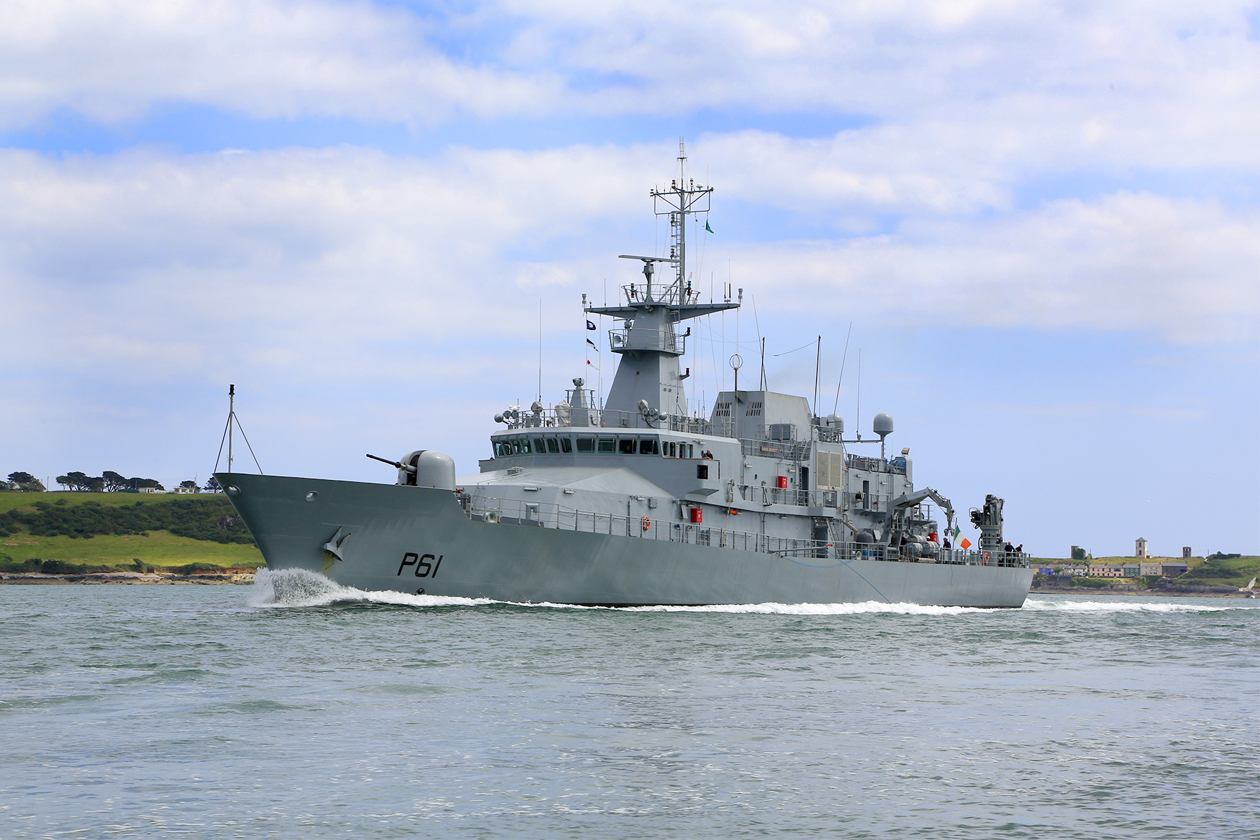 The Irish Naval Service ship LÉ Samuel Beckett (P61) on naval exercise maneuvers in 2014.